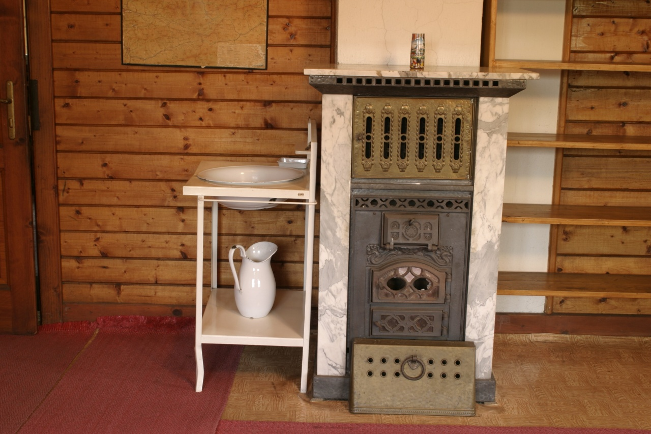 Silesian museum - cabin PB2